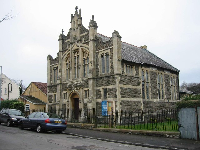 Llanishen Methodist Church. This is situated on Melbourne Road, Llanishen